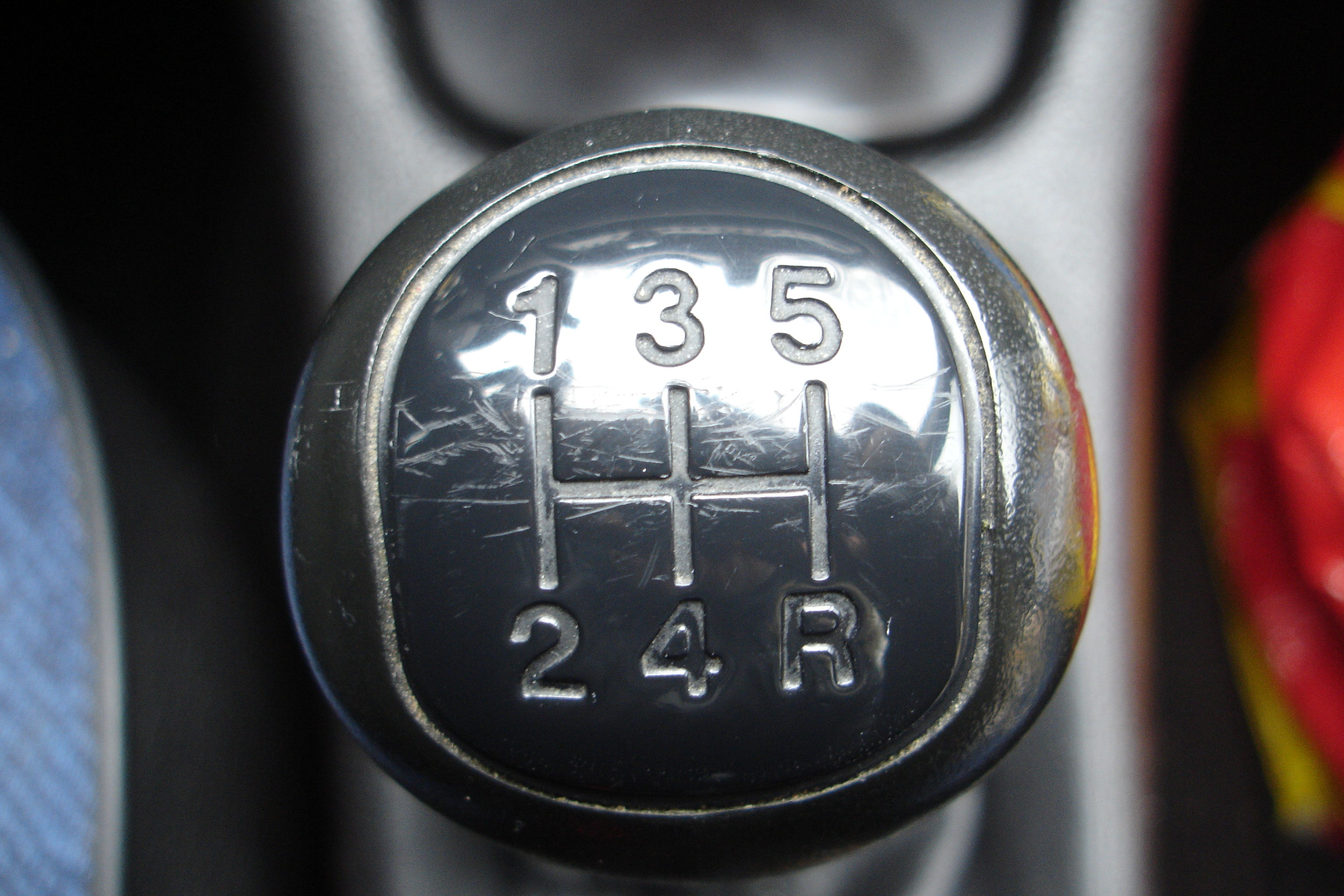 A 1999 3 door Peugeot 206 with a 1.1 L TU1JP petrol engine Kurdî: Peugeot 206 3 dirga sali 1999 ba 1.1 L TU1JP petrol mator